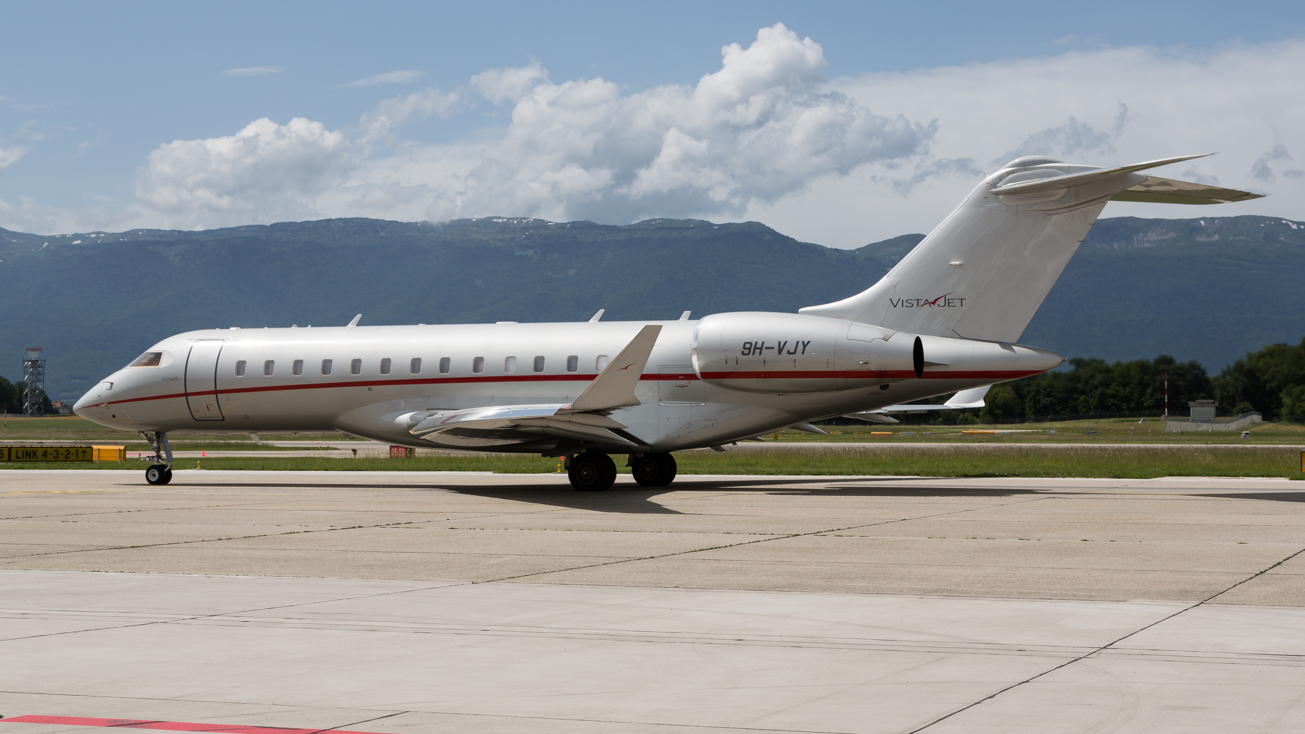 VistaJet Bombardier Global 6000 taxiing at Geneva Airport